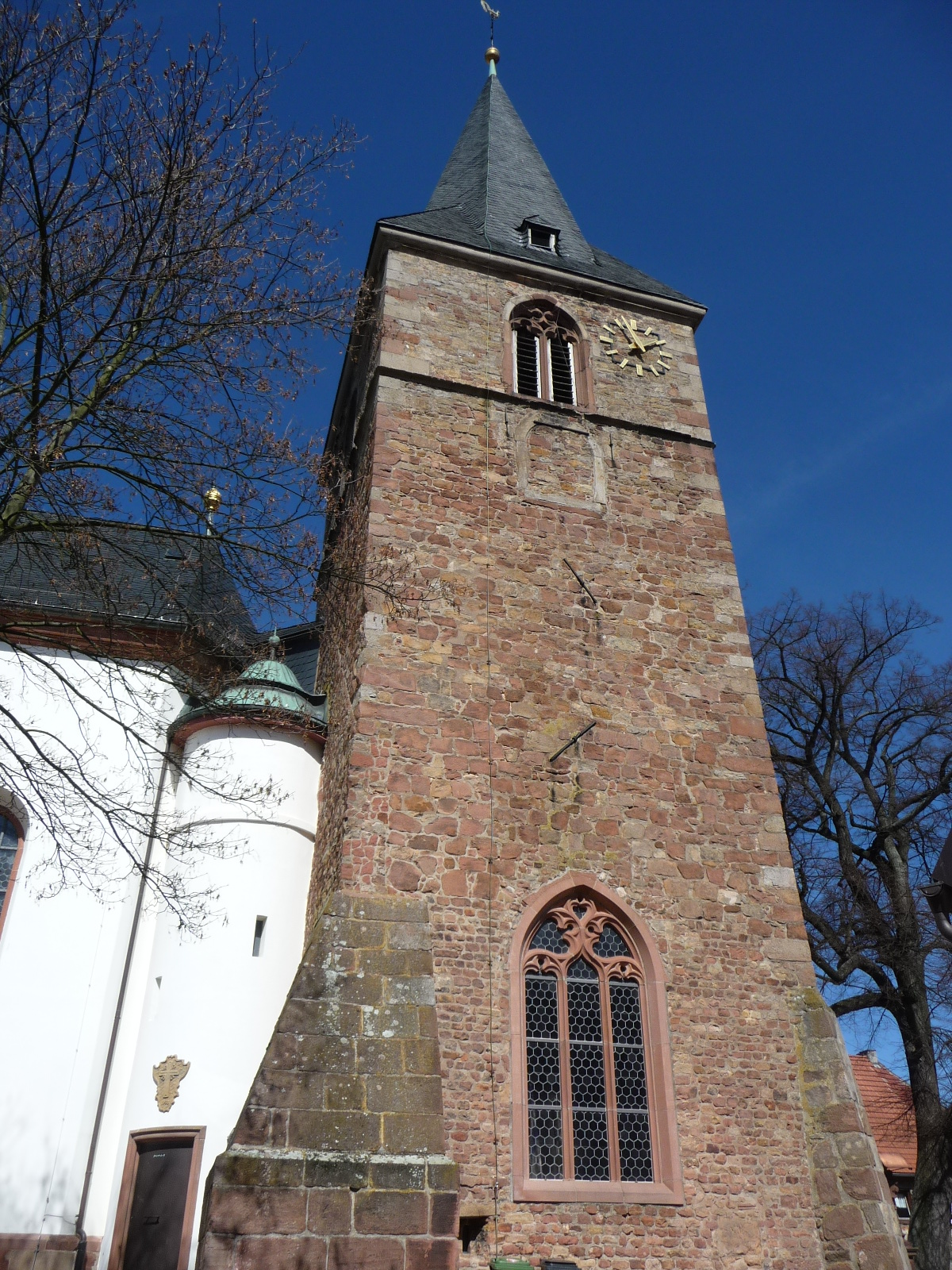 church in Kirrweiler in Rhineland-Palatinate, Germany